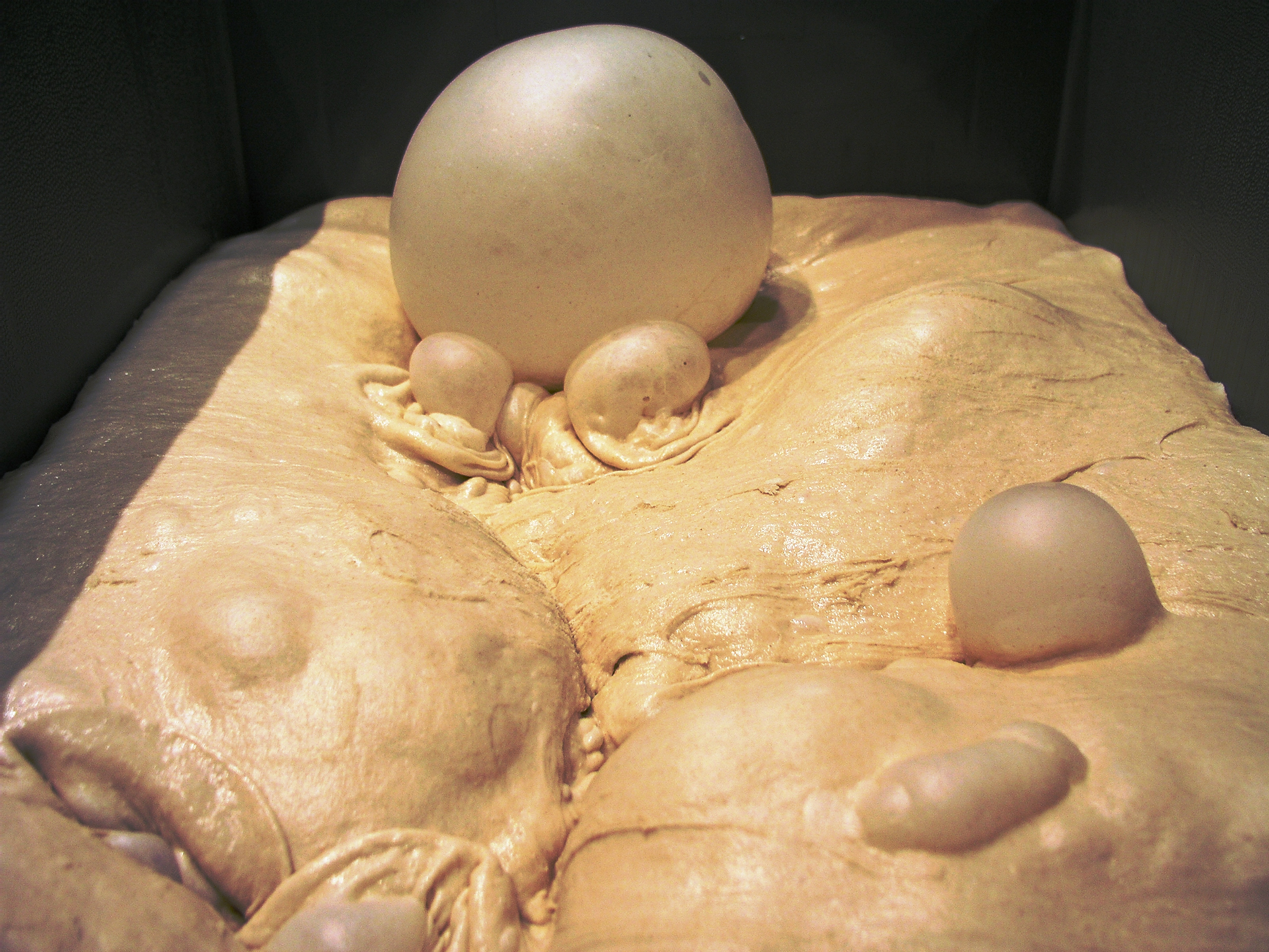 Dough fermenting